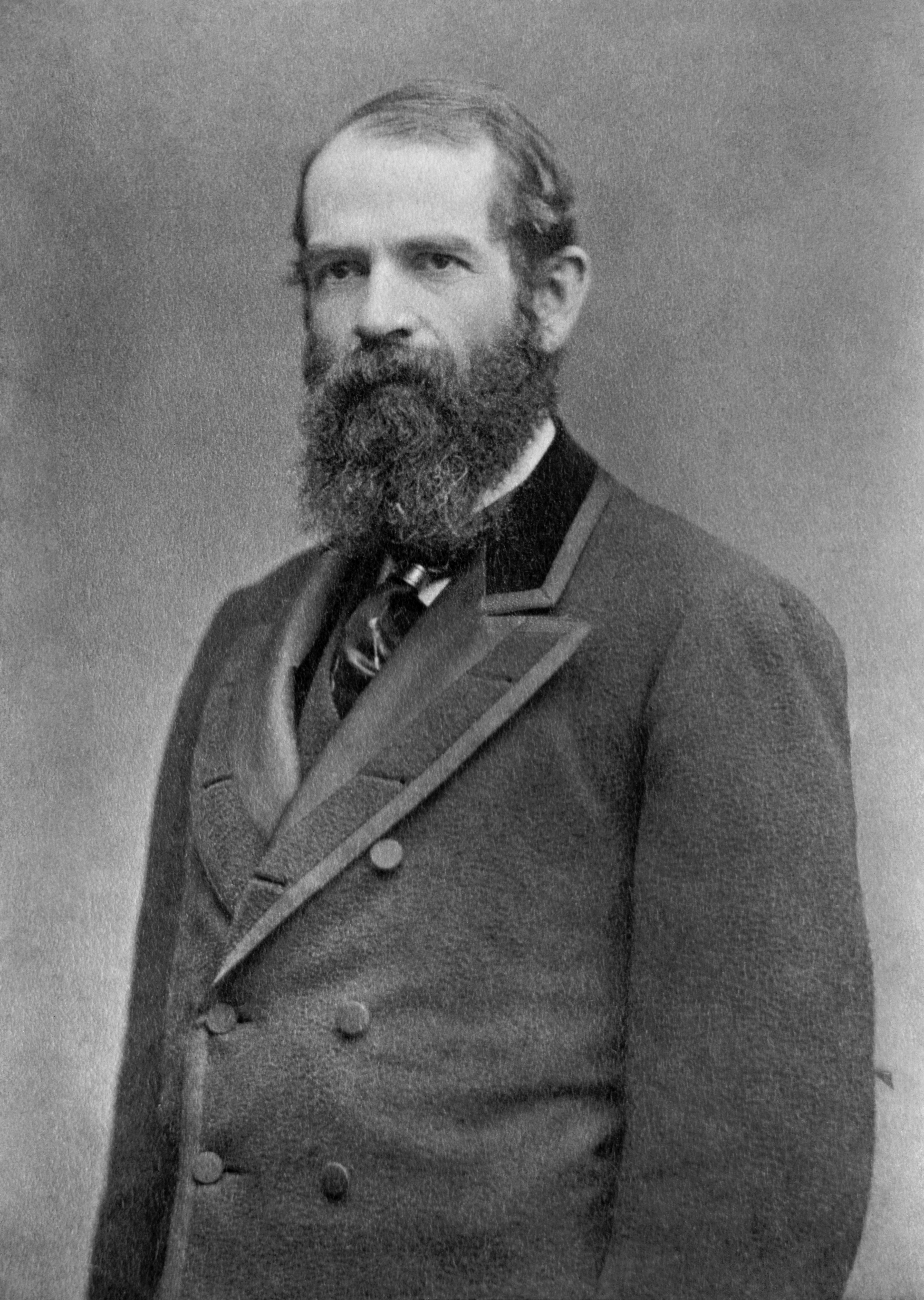 Jay Gould, American financier